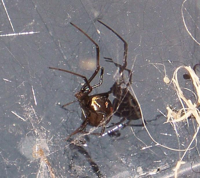 The female red-back spider of Australia sitting in its web.